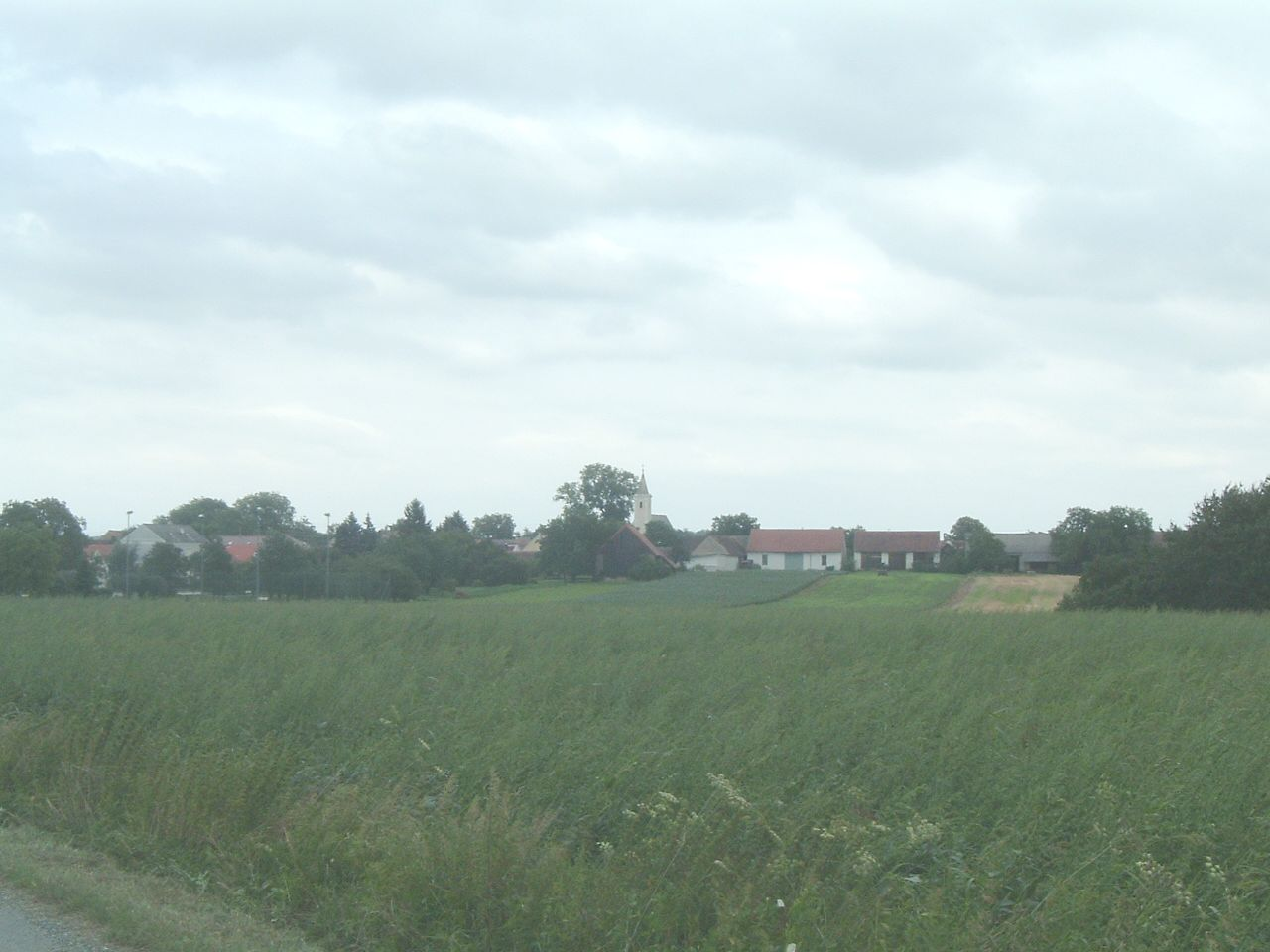 Unterbildein (Alsóbeled), Bildein, Burgenland, Austria